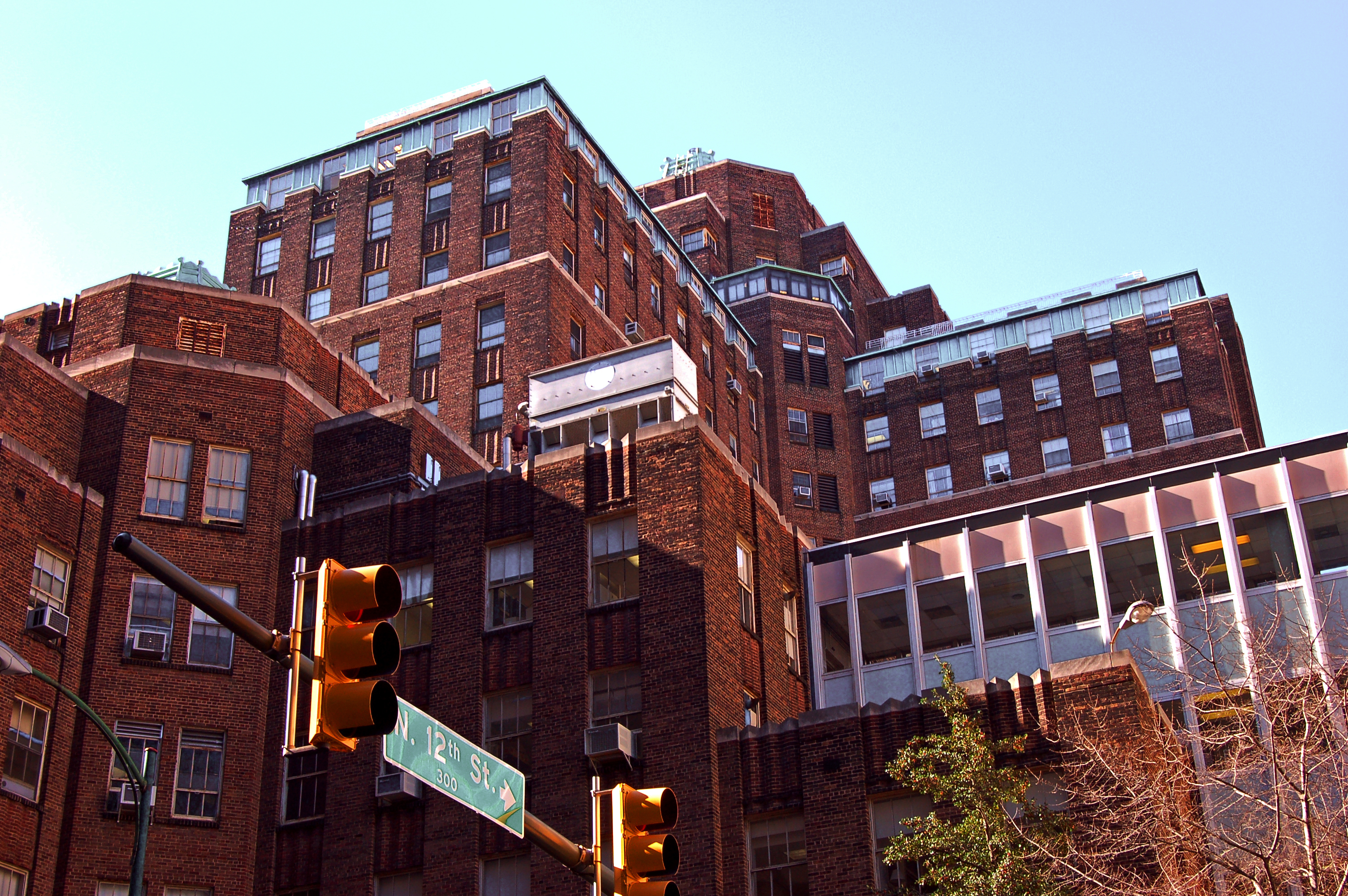 Corner of 12th and Marshall. VCU MCV Campus; Richmond VA